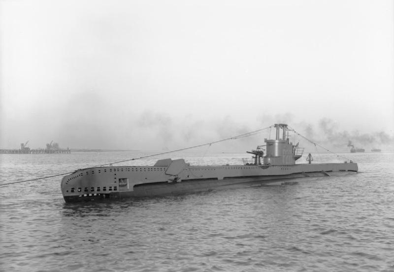 British S class submarine HMSM SPORTSMAN secured to a buoy at Sheerness.